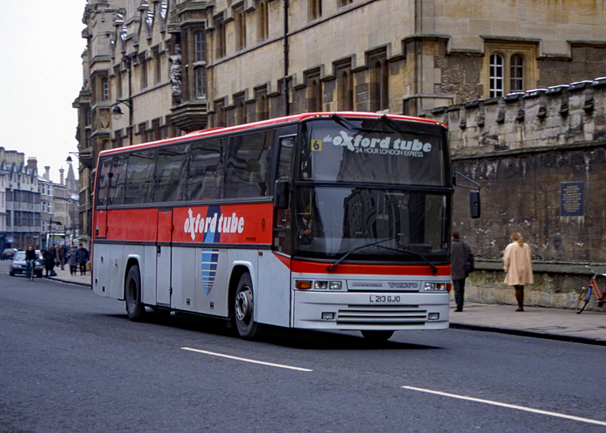 Volvo B10M-60 Jonckheere Ikarus , registration L213 GJO, fleet no 6, on Oxford Tube express service. Scanned from a Fujichrome 35mm slide.